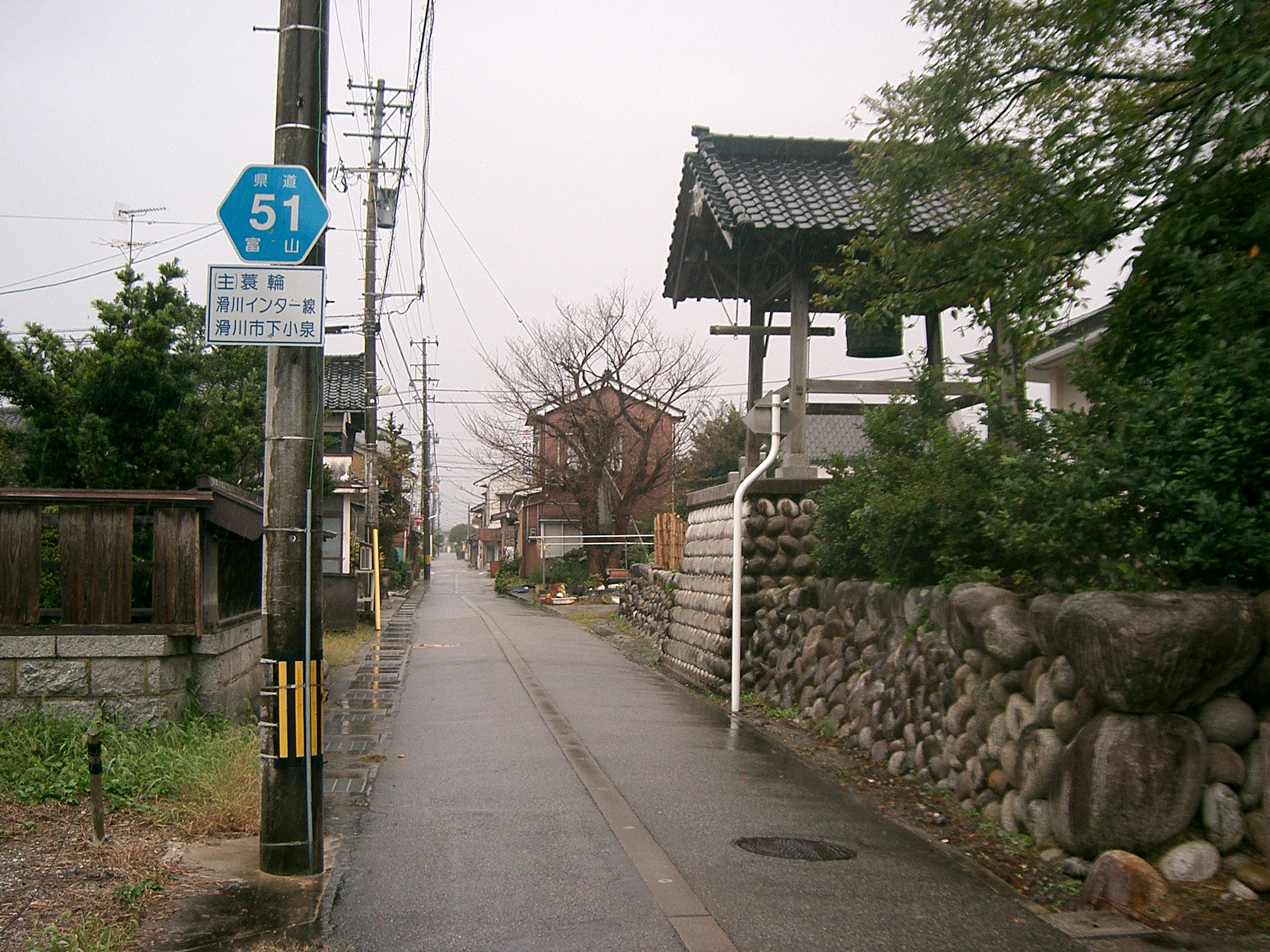 Toyama prefectural road 51 Minowa-Namerikawa-inter line. Looking southeast from Shimokoizumi, Namerikawa city.